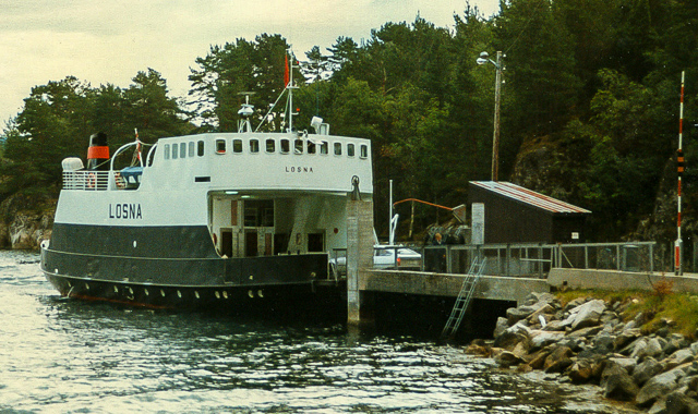 MF Losna at Svortemyr ferry terminal in 1987